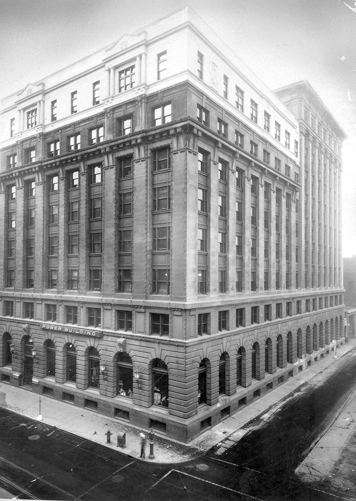 The Power Building, head office of Montreal Light, Heat and Power Consolidated, was located at the corner of Craig et Saint-Urbain streets in downtown Montreal Quebec. MLH&P's nationalization in 1944, was the first step in the establishment of Hydro-Québec. Source : Hydro-Québec Archives, F9/700762_1.